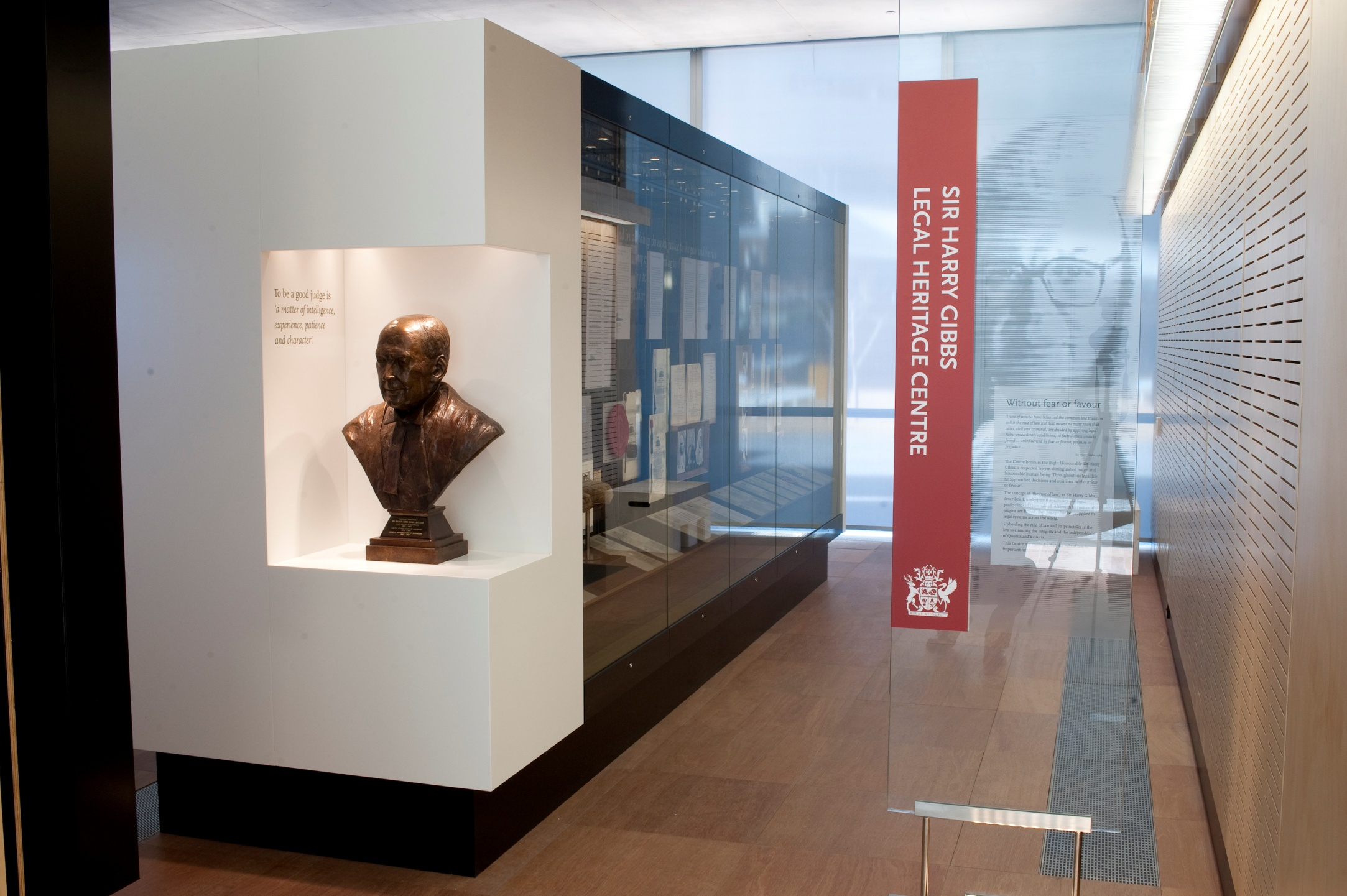 Entrance of the Sir Harry Gibbs Legal Heritage Centre, located in the foyer of the Queen Elizabeth II Courts of Law, Brisbane, Australia.